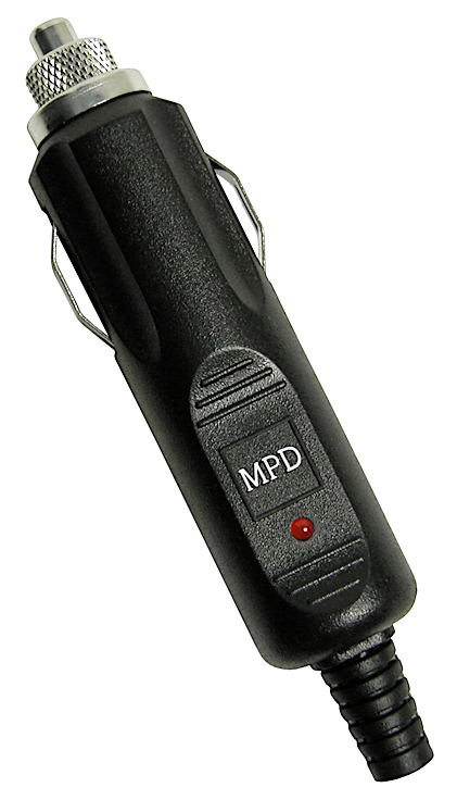 12 volt auto plug